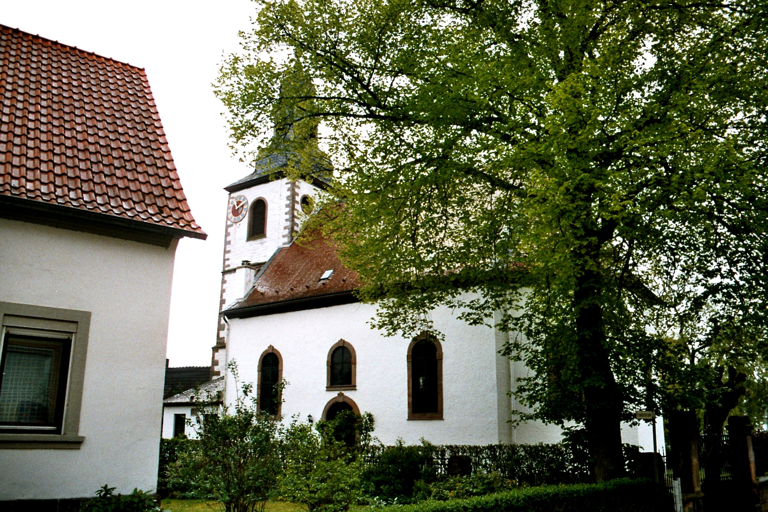 Altenkirchen (Pfalz), the village church